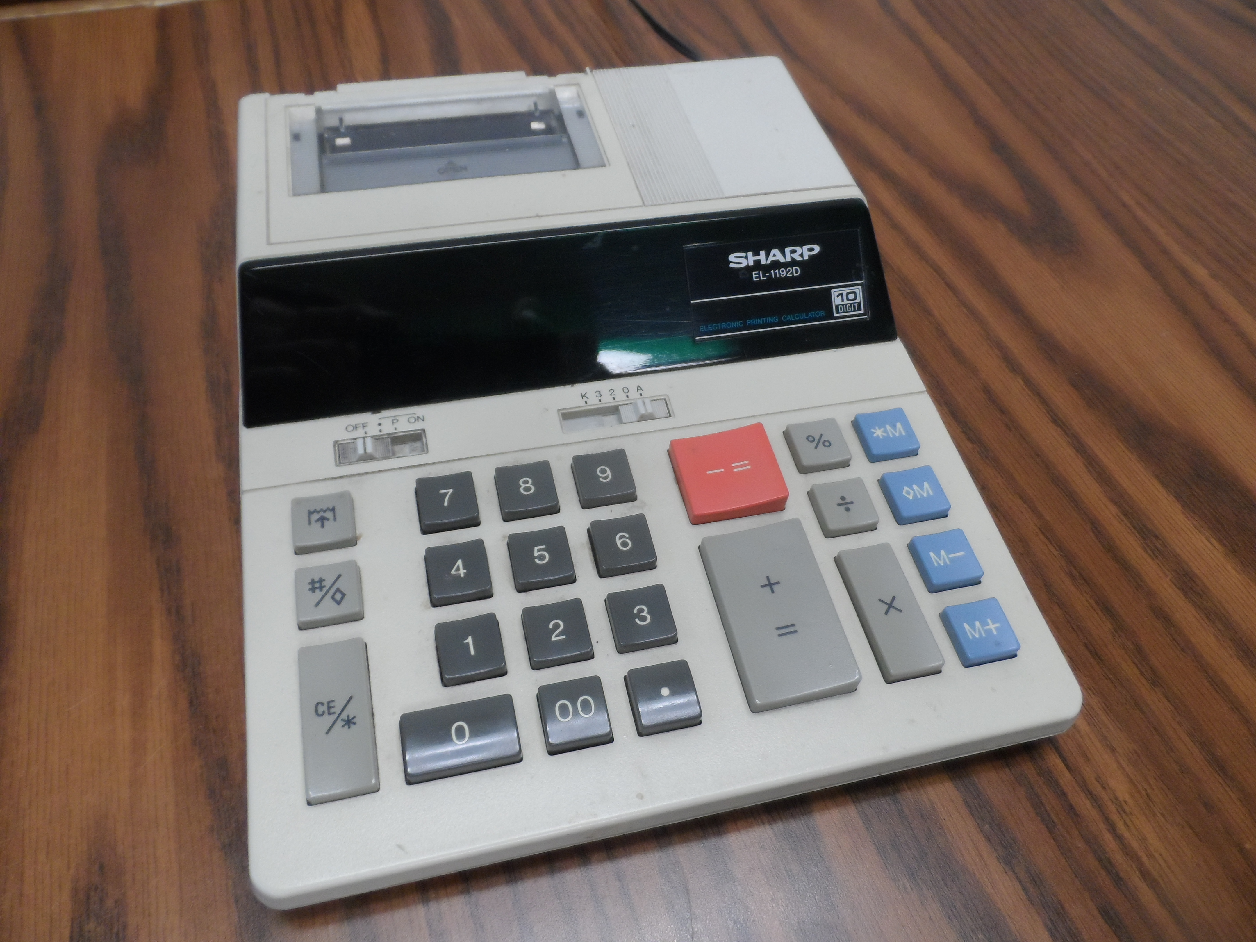 An old calculator